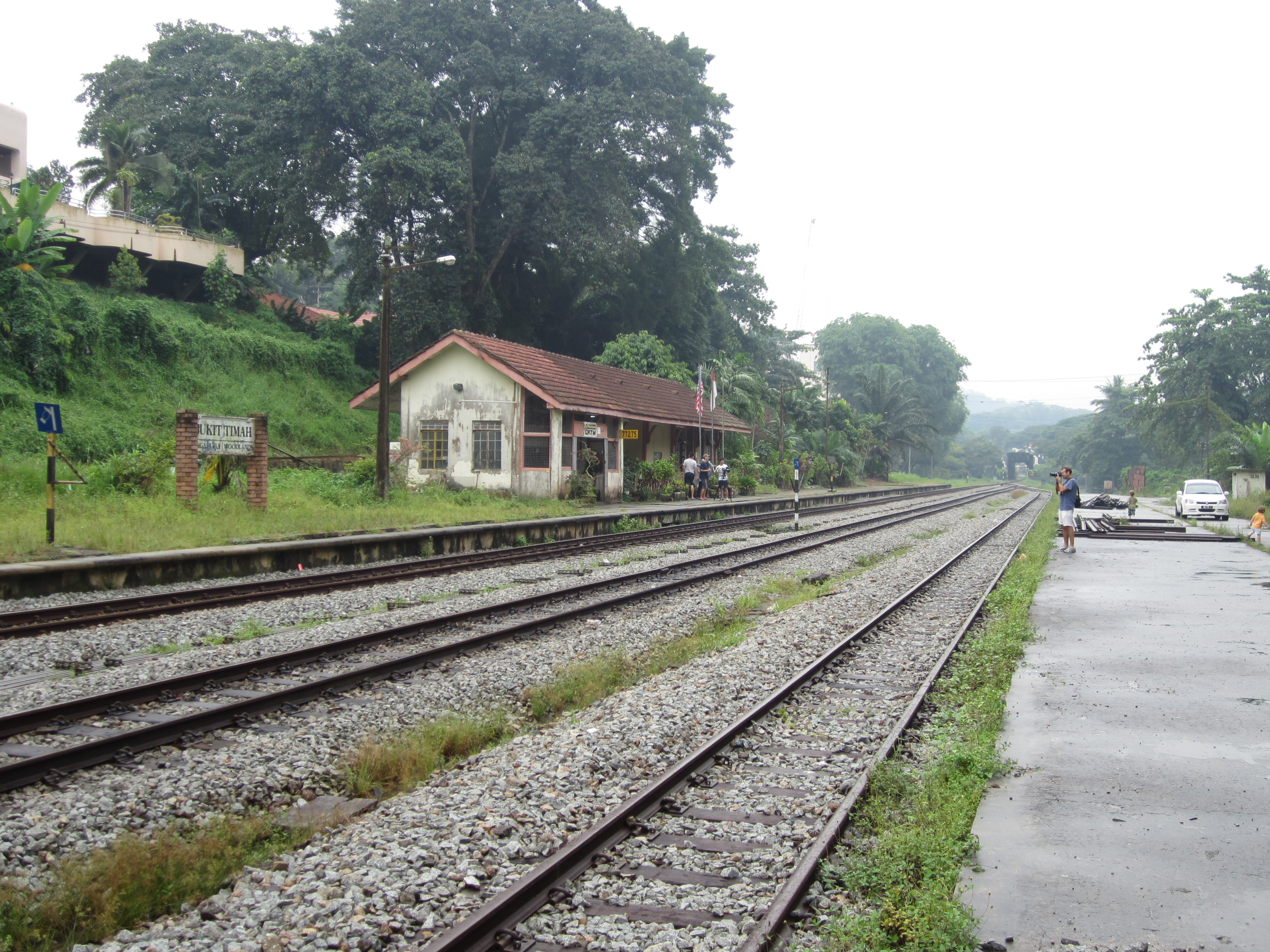 The Bukit Timah Railway Station in Singapore - general view.